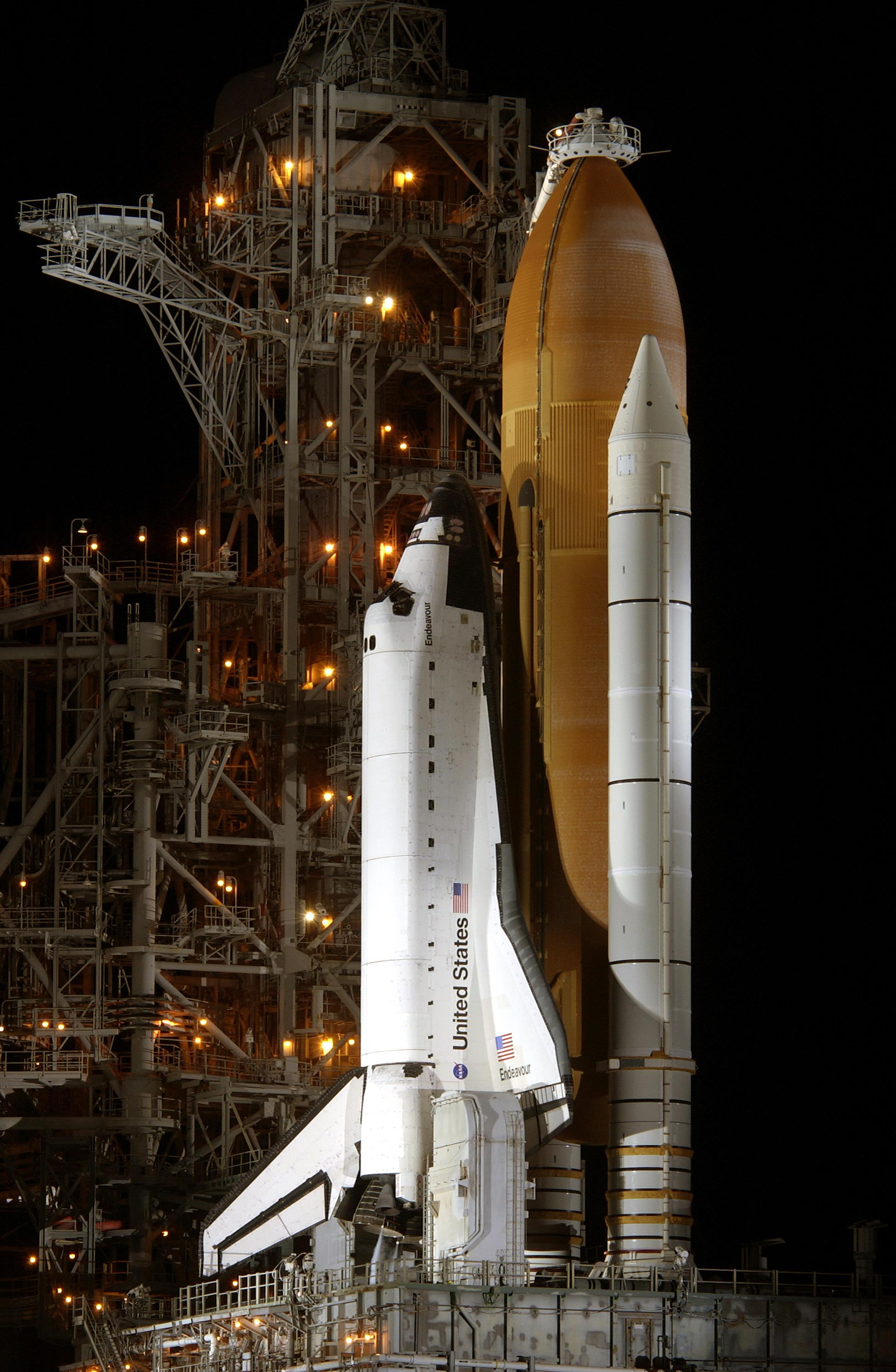 KENNEDY SPACE CENTER, FLA. - All is quiet on Launch Pad 39A where Space Shuttle Endeavour sits prior to launch on mission STS-113 to the International Space Station.